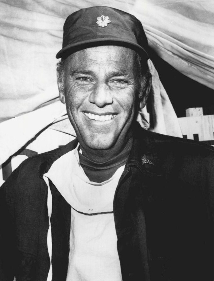 Photo of McLean Stevenson as Henry Blake from the premiere of the television program M.A.S.H..